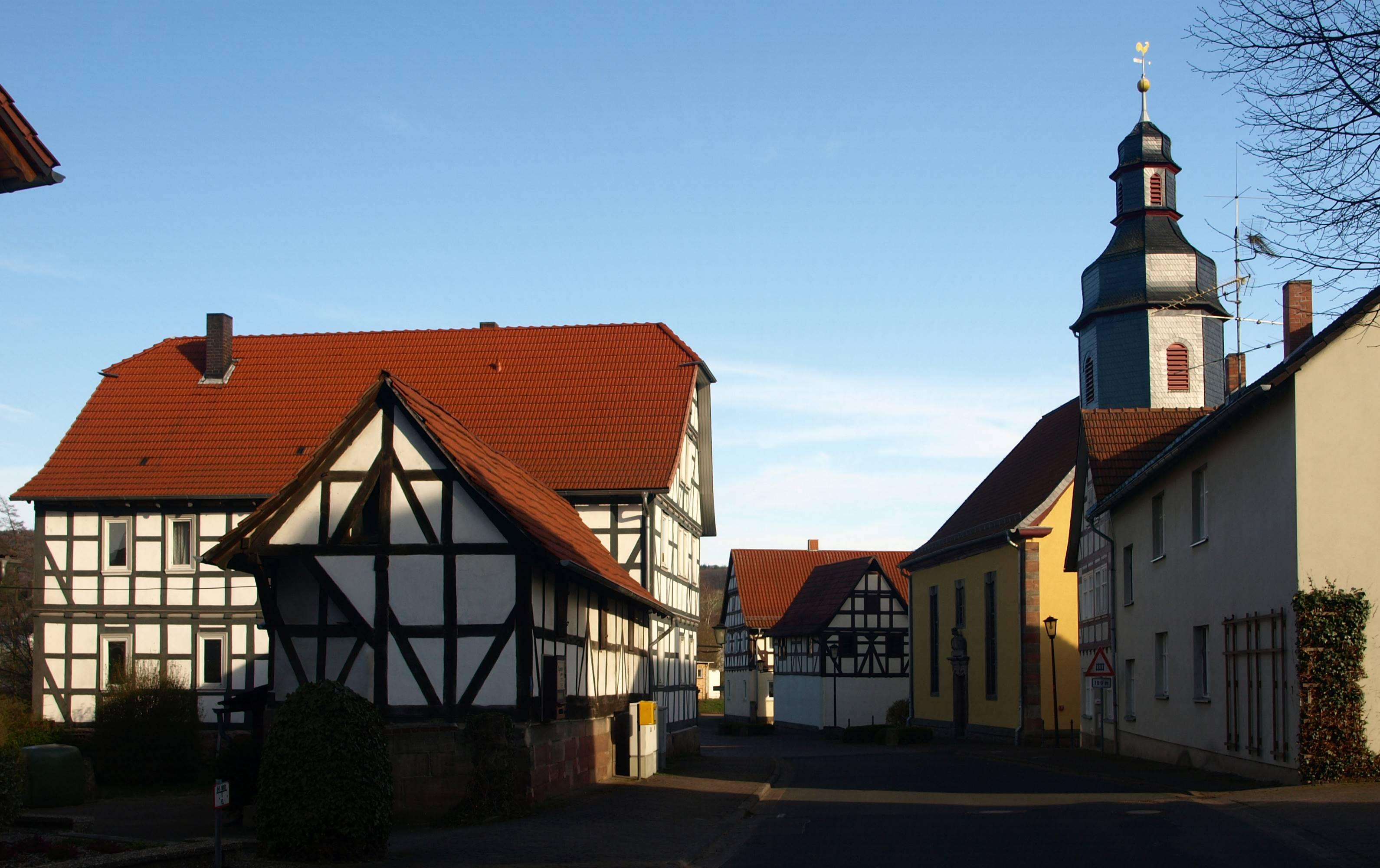 The street called Hauptstrasse with the village church from 1736